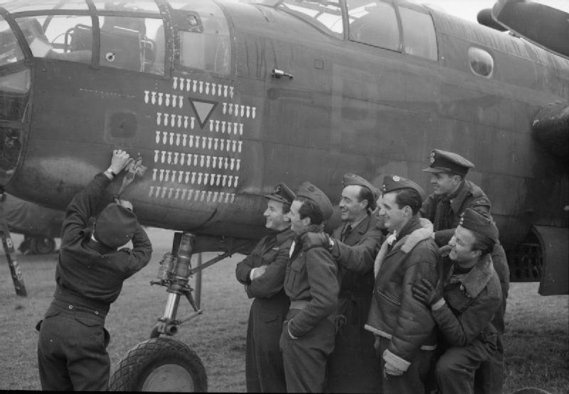 IWM caption : Belgian aircrew serving with No. 320 (Dutch) Squadron RAF watch as another Belgian officer adds a pin-up photograph to the bomb-tally on the nose of a North American Mitchell Mark II at B58/Melsbroek, Belgium.